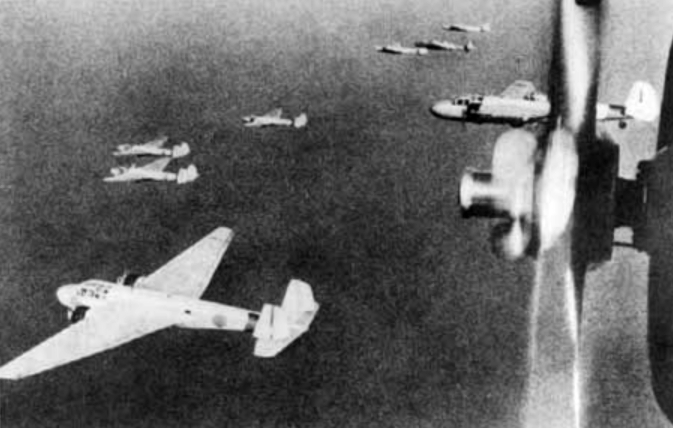 Japanese Mitsubishi Type 96 G3M1 or G3M2 bombers ("Nell") in flight in 1942.